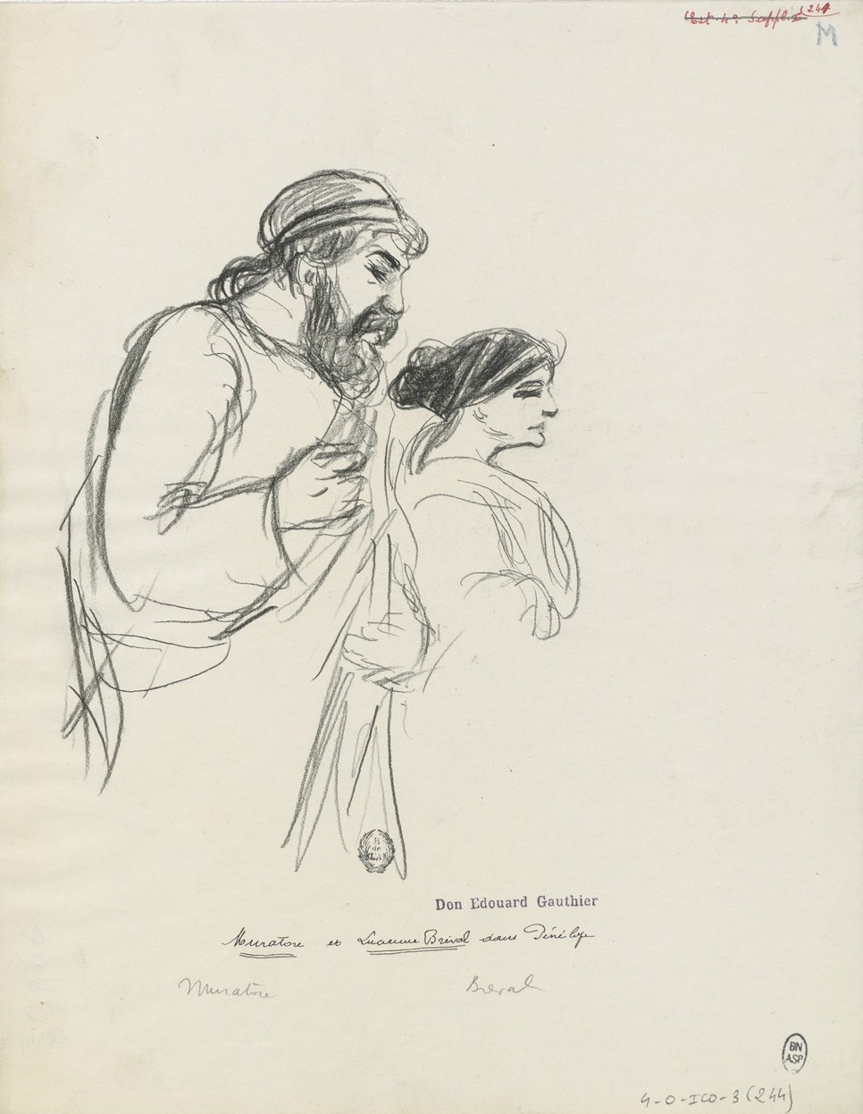 Lucien Muratore and Lucienne Bréval in Pénélope, Paris 1913, by Paul Charles Delaroche (1886-1914).